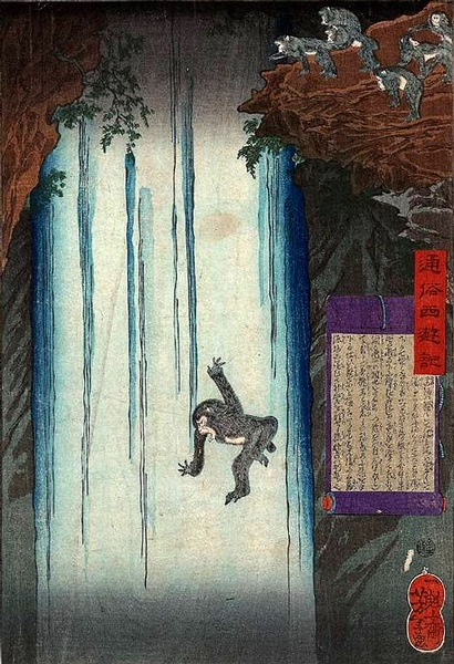 A scene of Journey to the West. The waterfall in front of the cave in wich Sun Wukong and his tribe live